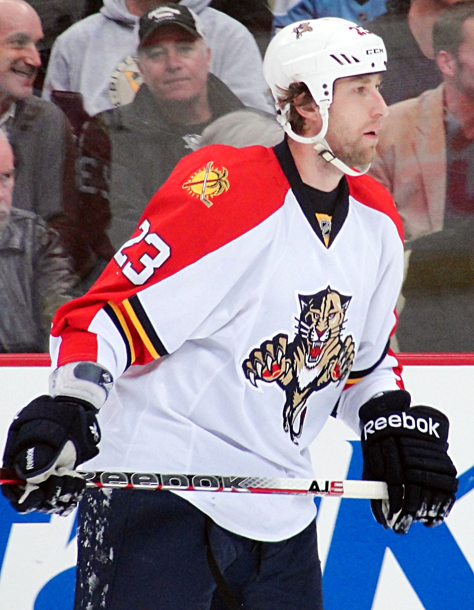 Florida Panthers defenseman Tyson Strachan skates against the Pittsburgh Penguins, March 9, 2012 at Consol Energy Center in Pittsburgh, PA.